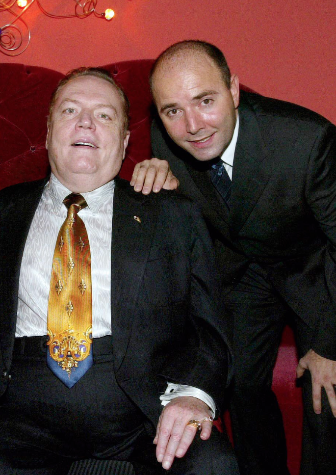 Pierre Woodman with Larry Flynt